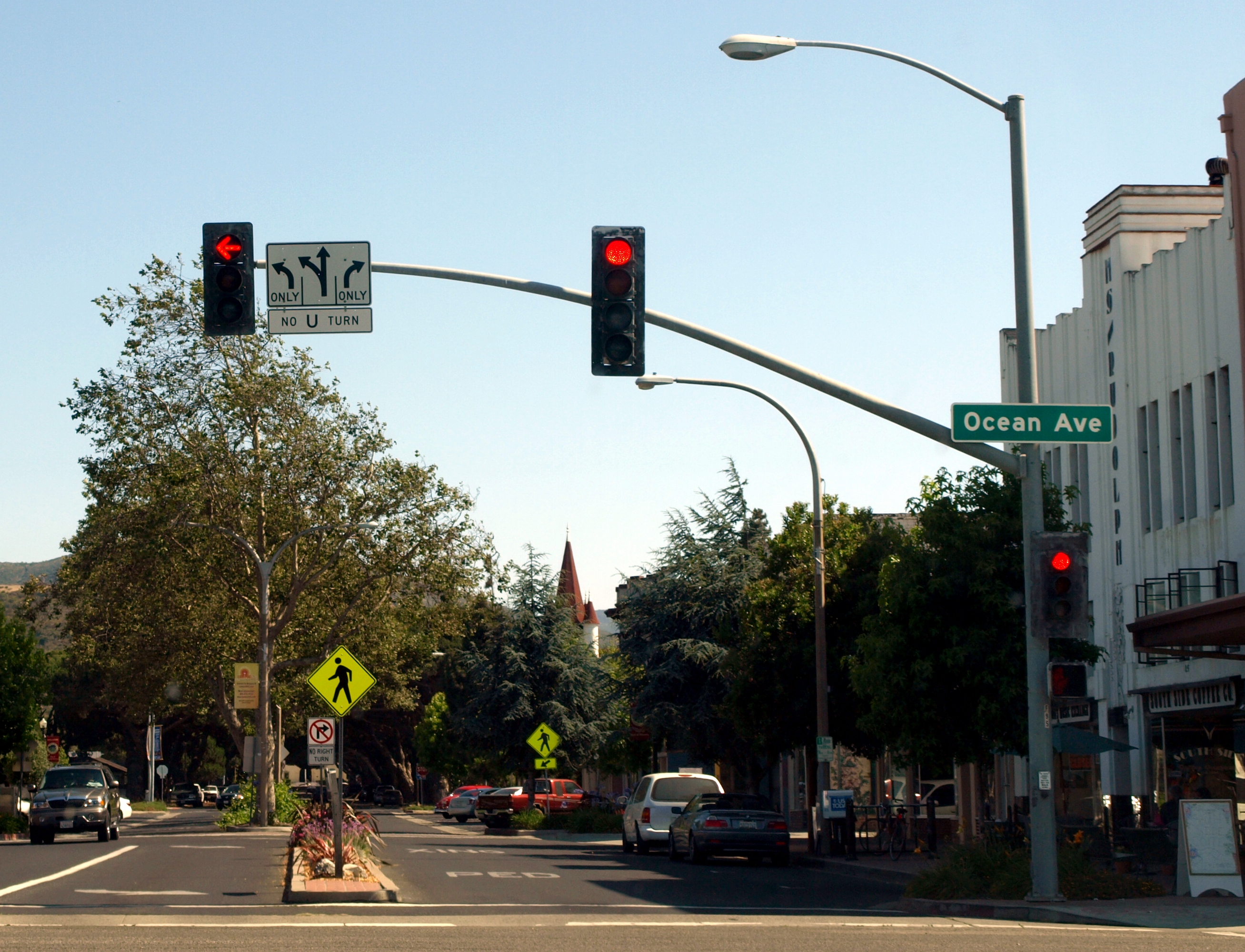 Historic downtown Lompoc, California at East Ocean Avenue and North H Street. View from the southbound lane of North H Street, looking south.This photograph was taken with an Olympus E-510 DSLR camera and edited (color balance, saturation, brightness and contrast) using ArcSoft Photostudio 5.5